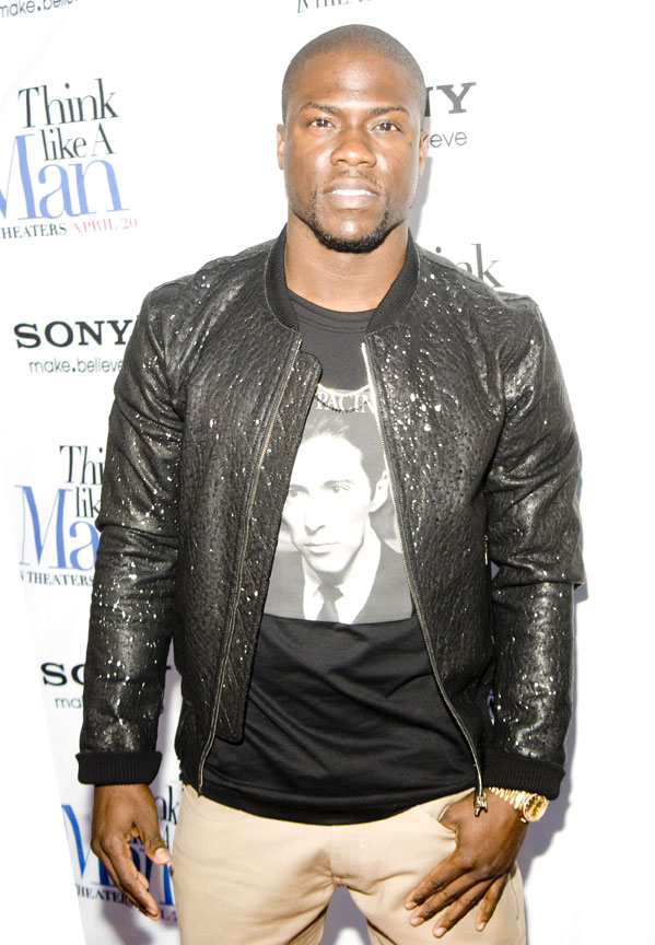 Actor Kevin Hart attends a Chicago premiere for the film "Think Like a Man" at Showplace Icon Theater in Chicago, Illinois on April 11, 2012.